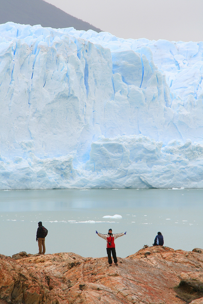 Perito Moreno Glacier, in Los Glaciares National Park, southern Argentina